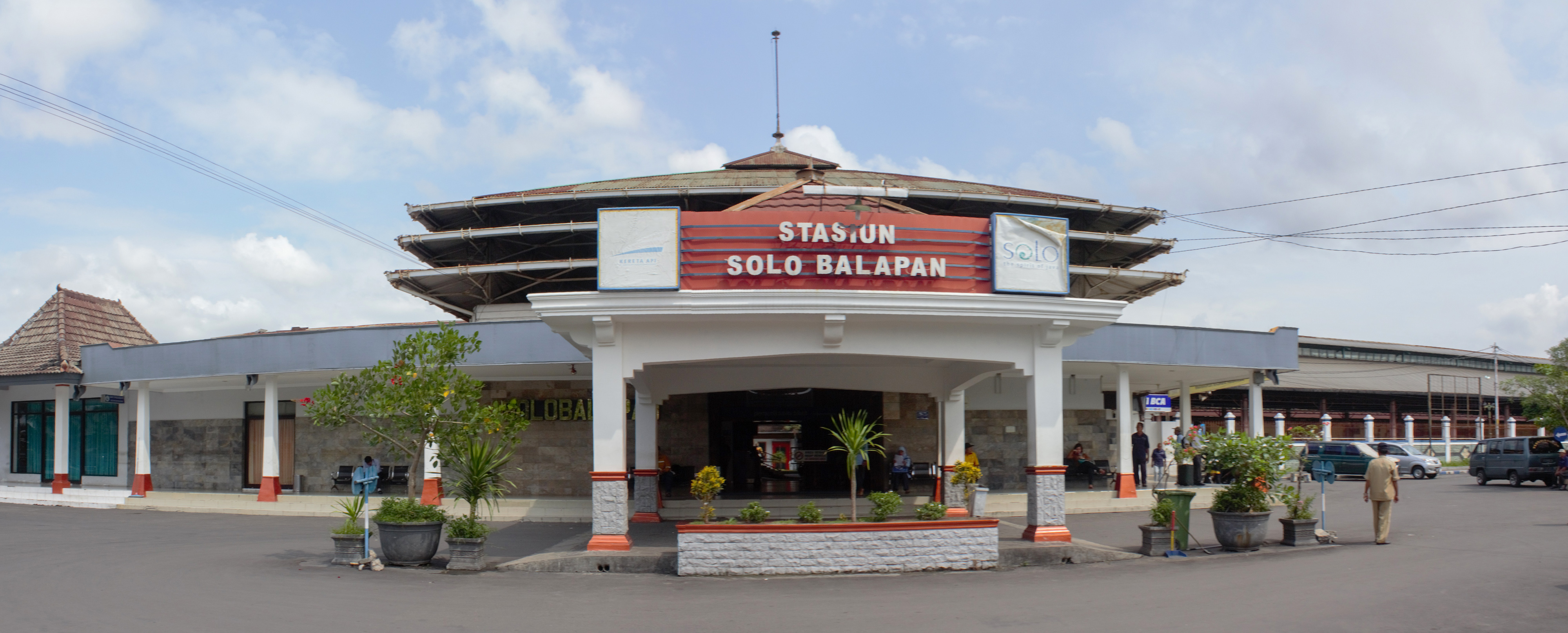 The front entrance to Solo Balapan Station, a train station in Surakarta